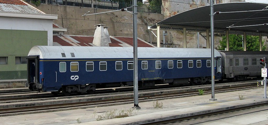 U Hansa sleeping car of CP